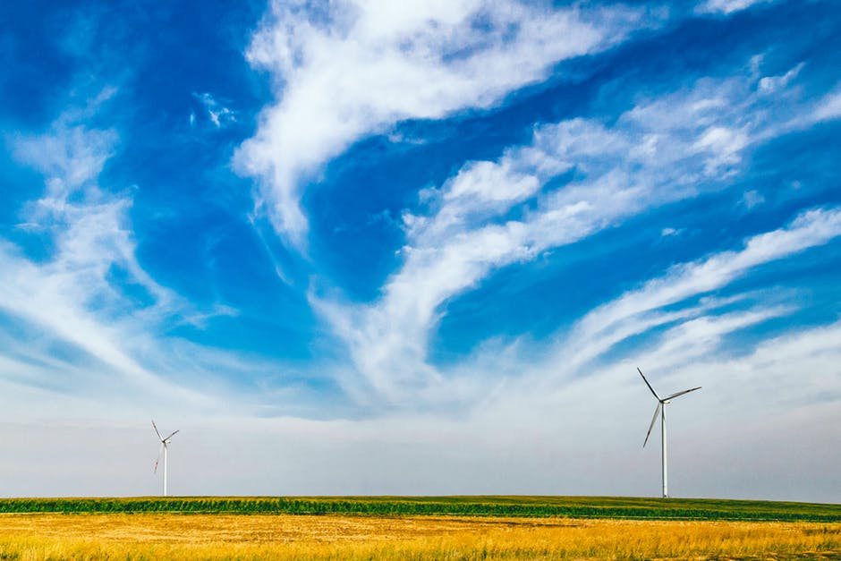 Wind turbines, unidentified location